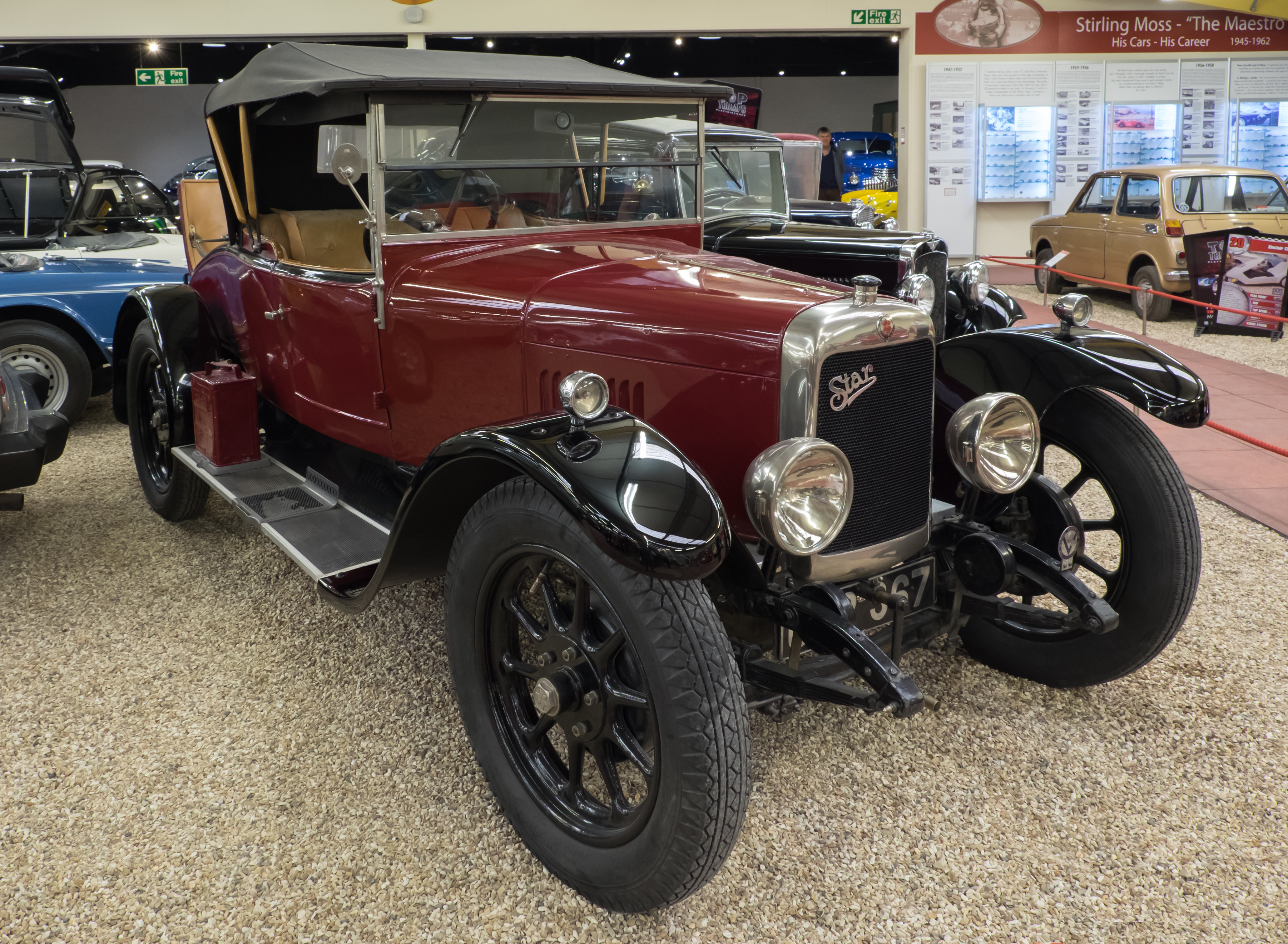 A 1926 Star Scorpio. This car is kept at the Haynes International Motor Museum in Sparkford, Somerset.